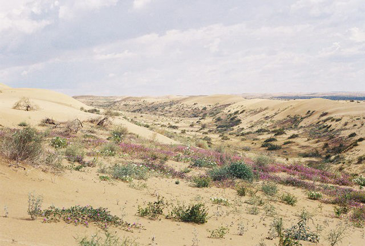 Desert vegetation in the North Algodones Dunes Wilderness, Imperial County, California.